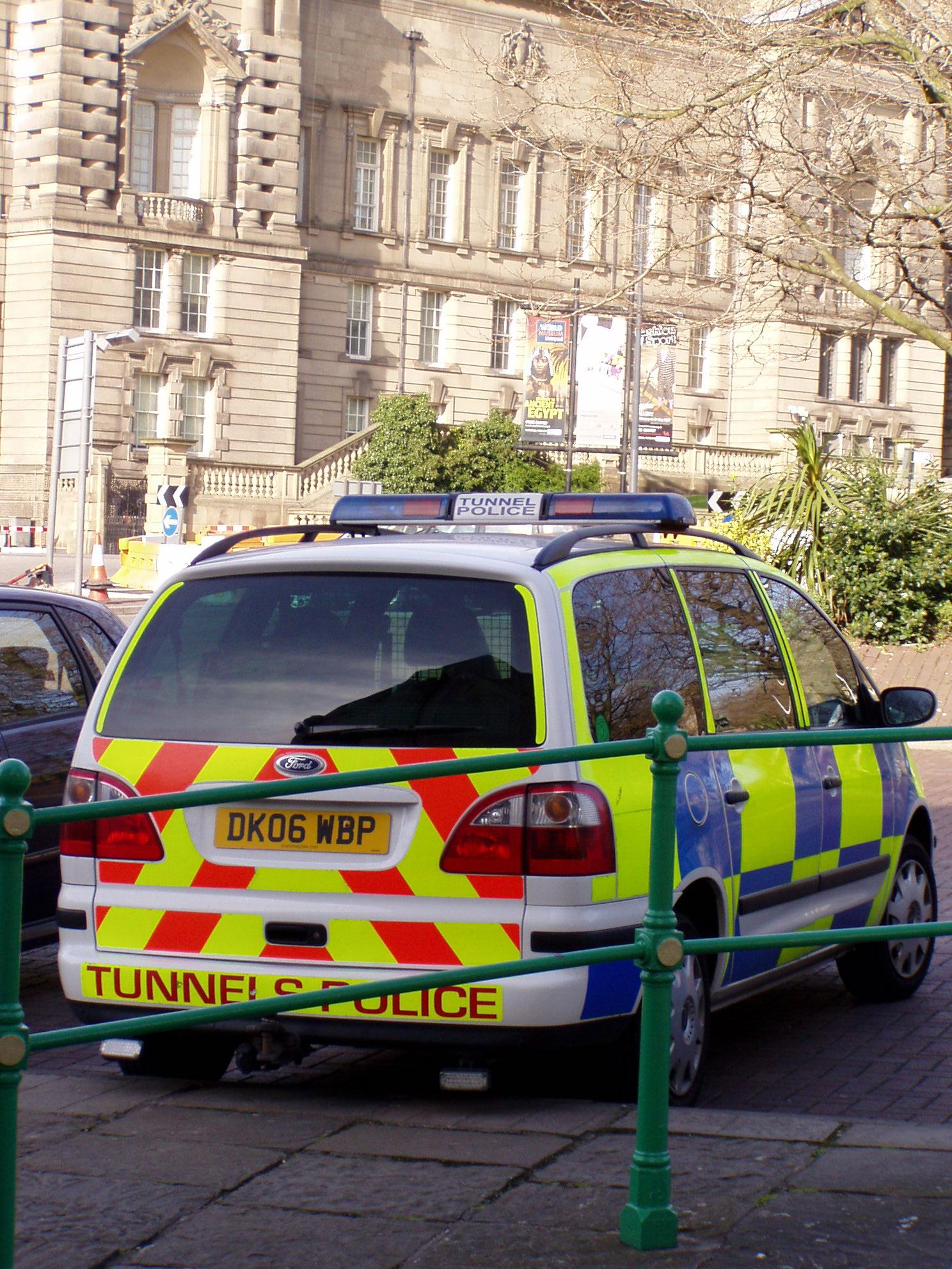 Mersey Tunnels Police Car